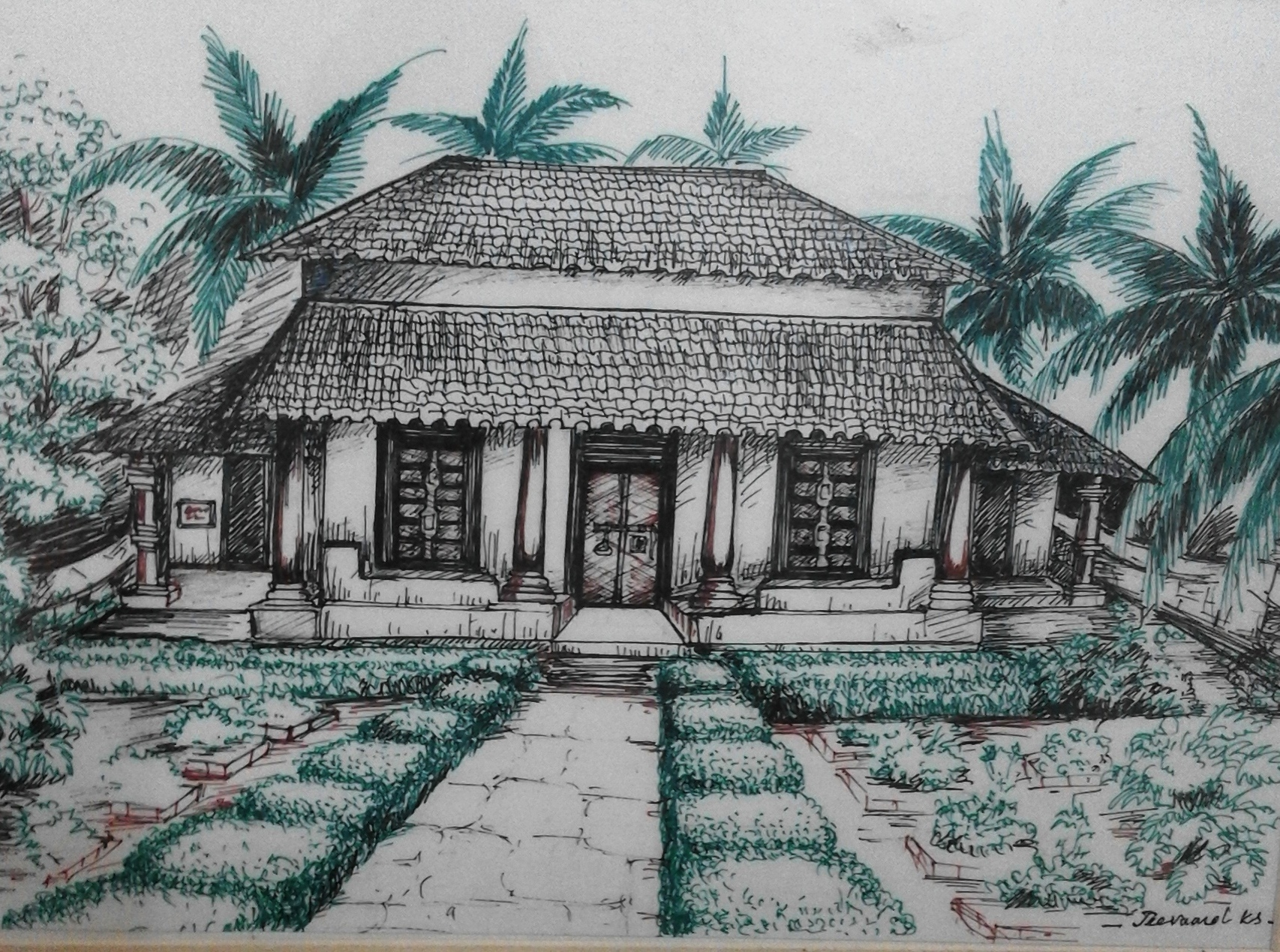 Kozhikode district, Kerala state, India.